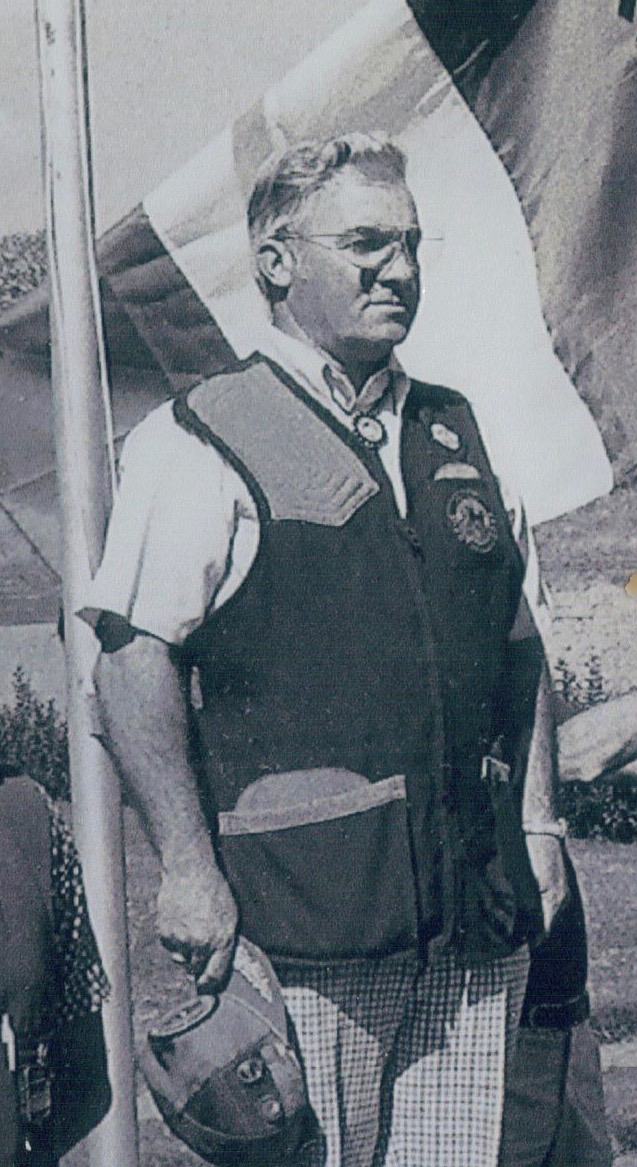 Photo of Billy G. Hicks (American sports shooter)